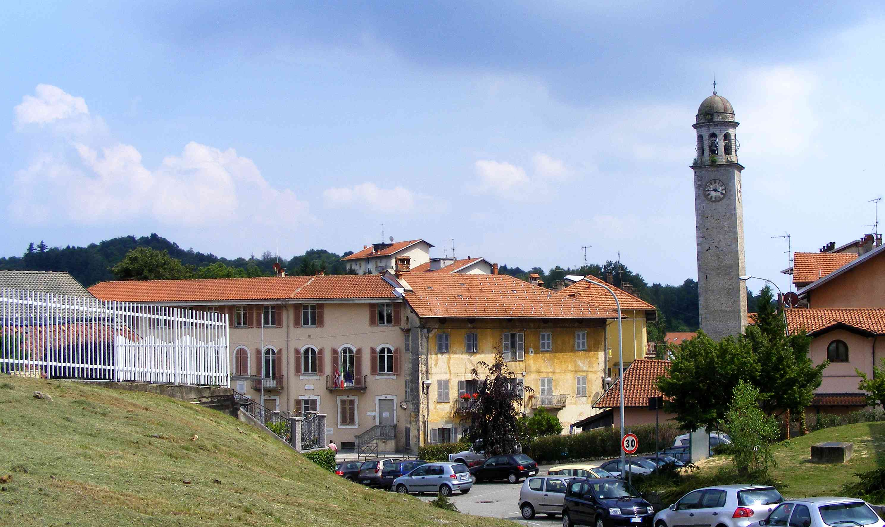 Croce Mosso (Vallemosso, BI, Italy): panorama